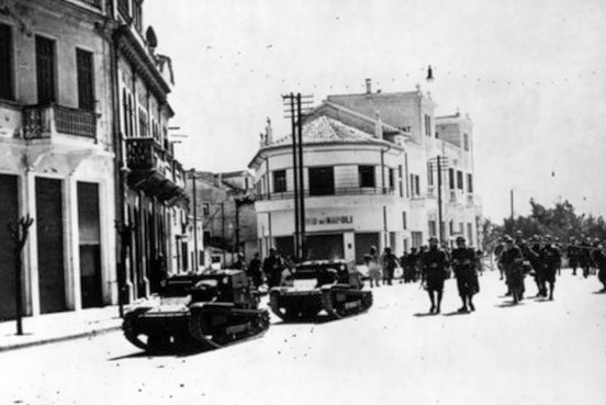 Italian soldiers and tanks marching in Durrës April 1939